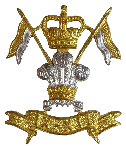 9th/12th Royal Lancers Cap Badge